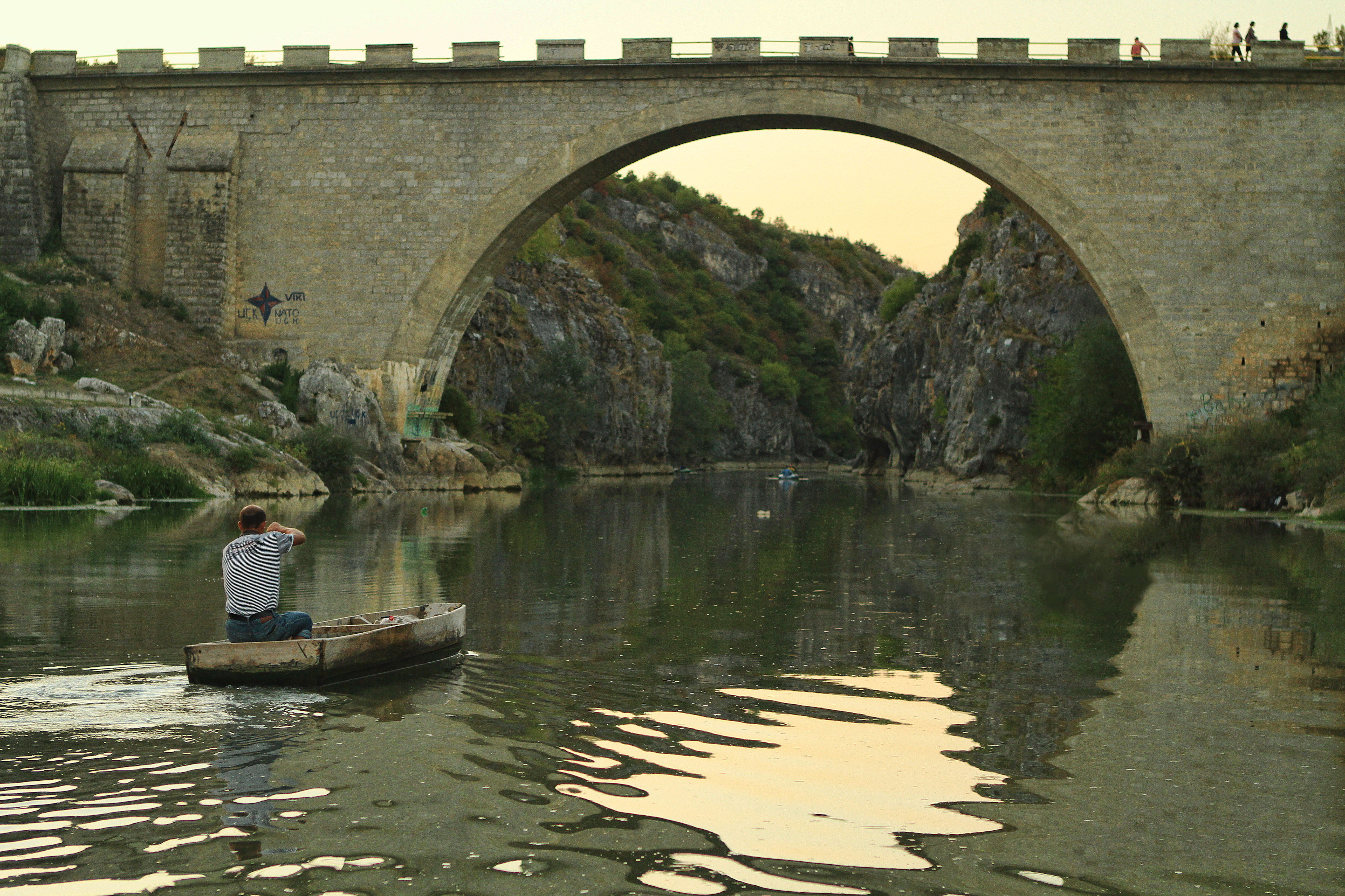 Nje lundrues ne lumin Drini Bardhe, nen uren e shenjte